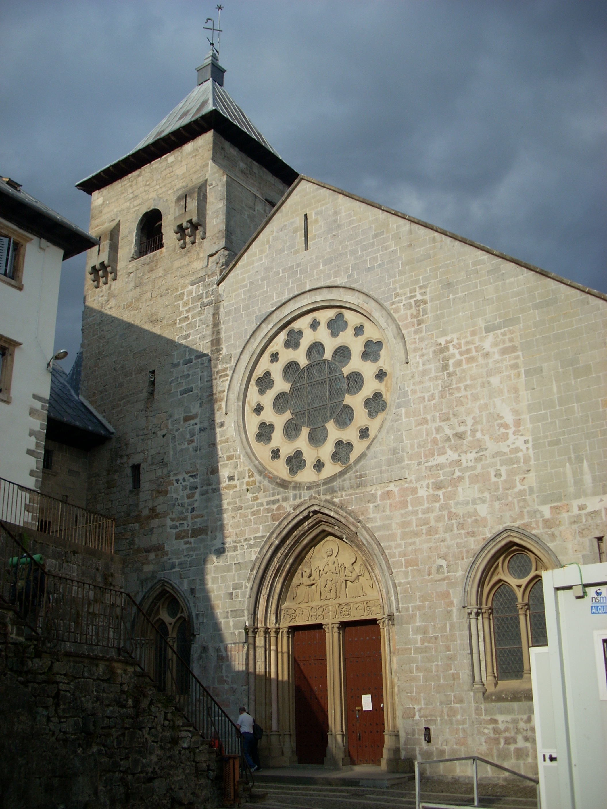 Collegiate church of St. Mary, Orreaga-Roncesvalles, Navarre, Spain